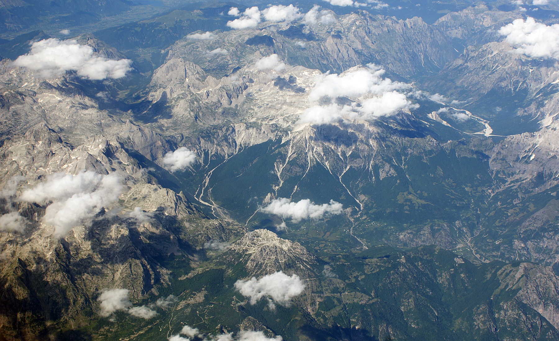 Albanian Alps seen from the air looking East. In the center the valley and the village of Theth. In the upper part on the right the Valbona valley with Maja Roshit and Kollata to the left. Between the two valleys are the Valbona pass (Qafa e Valbonës) and the Jezerca massif with the Jezerca peak between two clouds. To the left is the Peja pass (Qafa e Pejës) and the pyramid of Maja Arapit. Behind in the upper left corner the Montenegrinian Ropojana valley and the valley of Plav with parts of Lake Plav. To the left is the Radohima massif. In the lower part can be seen the road to Theth over Terthorja pass (Qafa Terthorjës).